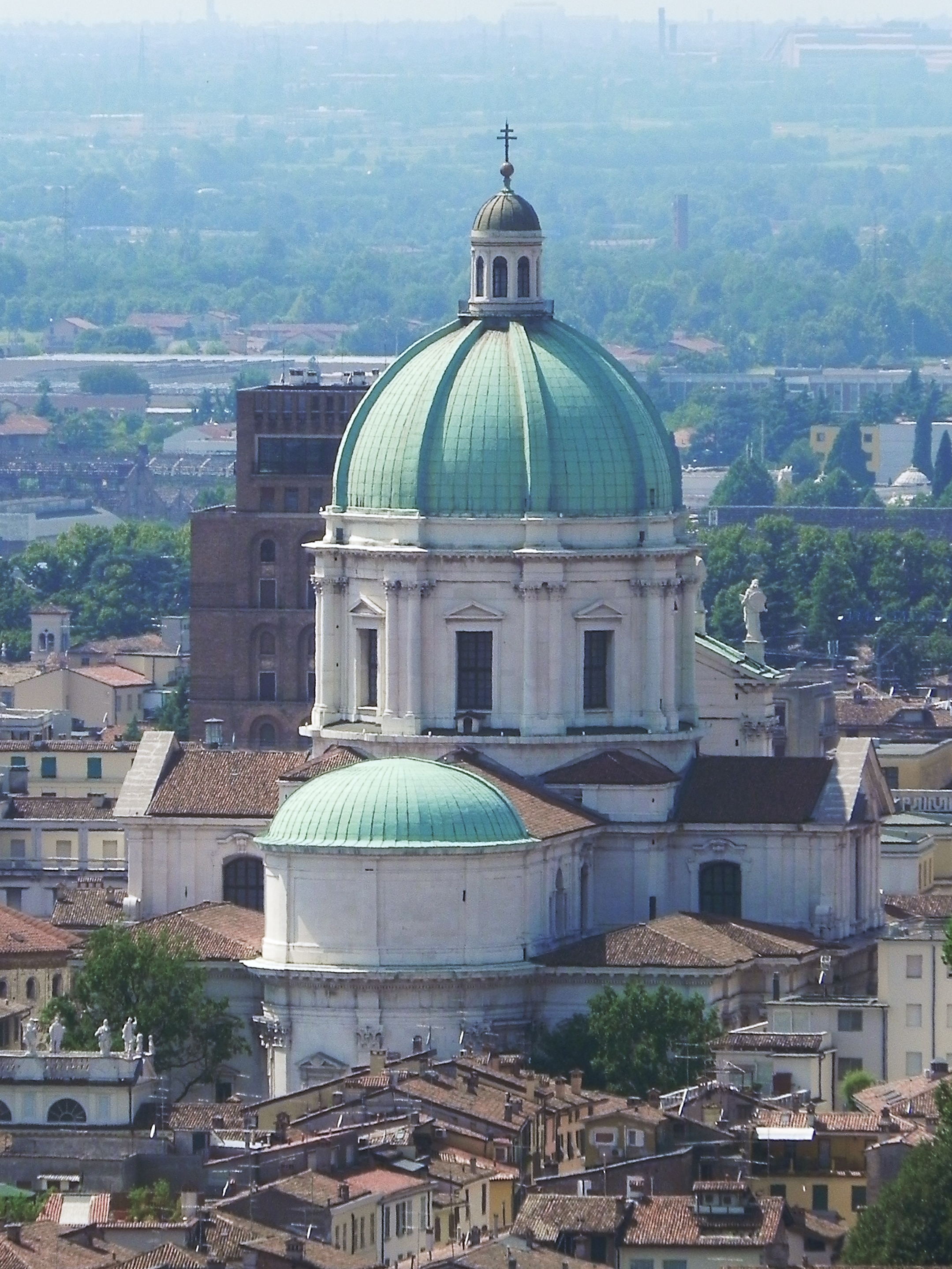 Back side view of the Cathedral of Brescia